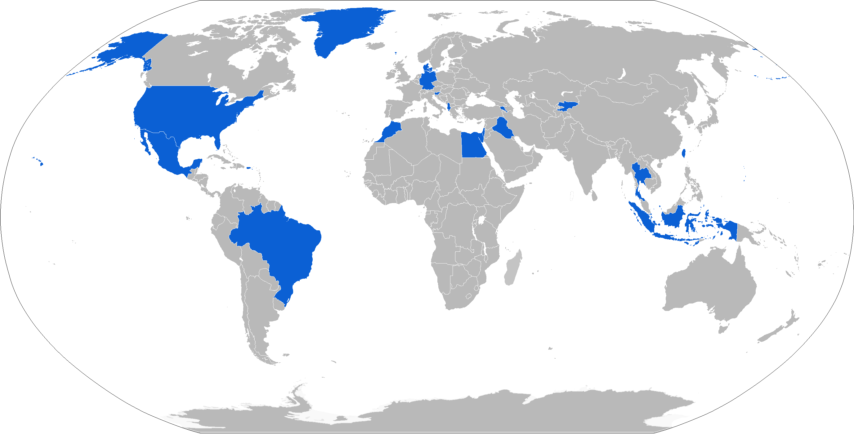 Map with K6 operators in blue